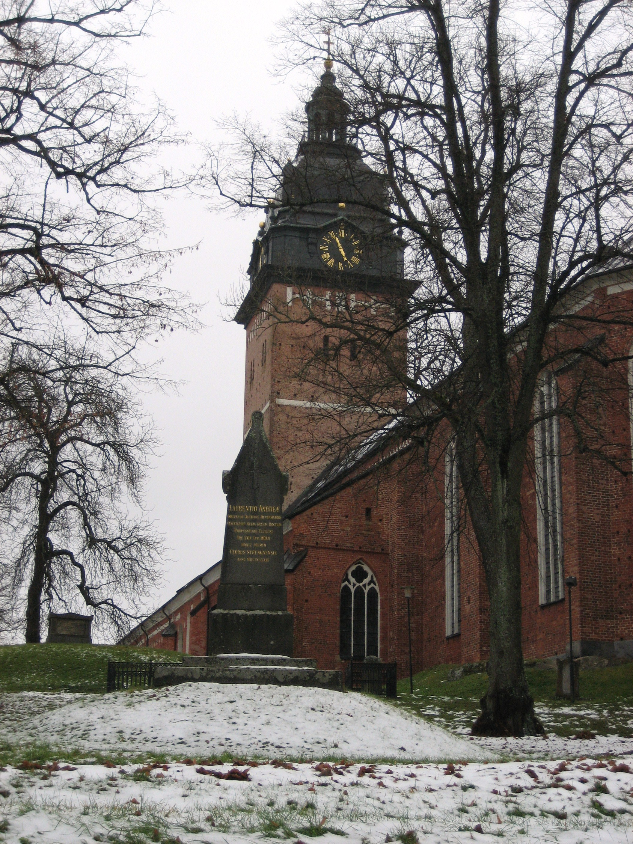 Grave of Swedish Protestant reformer Laurentius Andreæ outside Strängnäs Cathedral, Sweden.